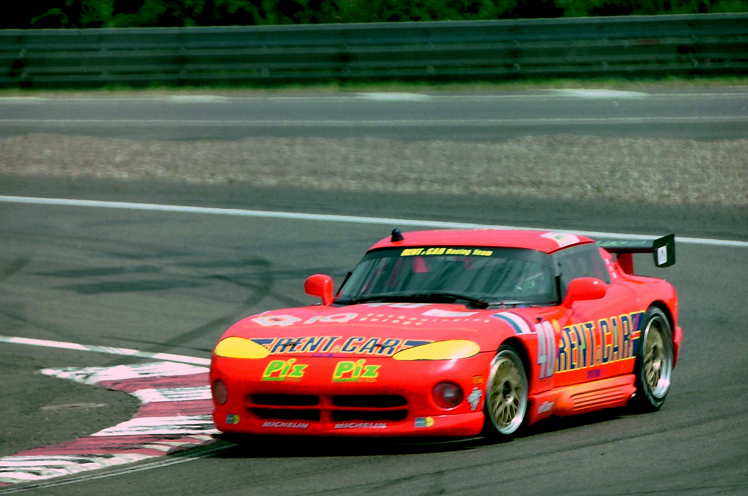 Dodge Viper RT10 - Rene Arnoux, Justin Bell & Bertrand Balas at Mulsanne Corner at the 1994 Le Mans